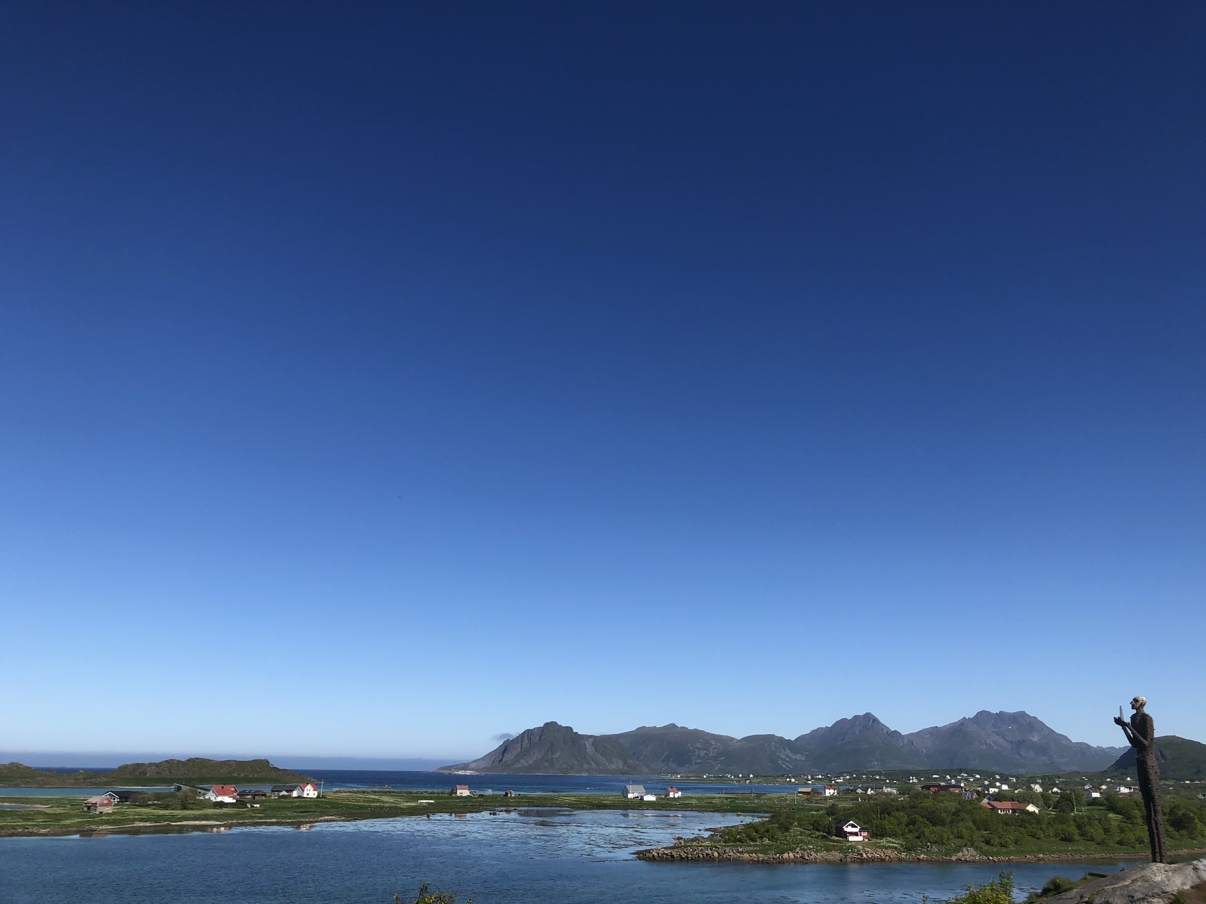 Coastal view from Bø, Nordland